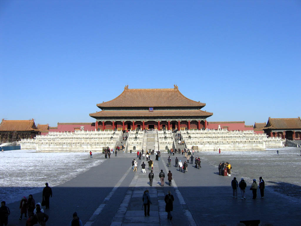 The Forbidden City or Forbidden Palace (Chinese: 紫禁城; pinyin: zǐ jìn chéng; literally "Purple Forbidden City"), located at the exact center of the ancient City of Beijing, was the imperial palace during the mid-Ming and the Qing dynasties.